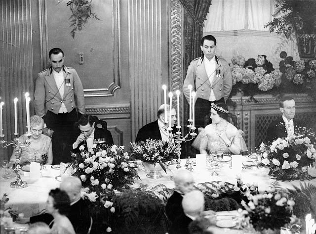 Parliamentary Dinner honouring King George VI and Queen Elizabeth, Chateau Laurier, Ottawa, Canada. (L-R at the head table): Mrs. T.A. Crerar, King George VI, Rt. Hon. W.L. Mackenzie King, Queen Elizabeth, Lord Tweedsmuir